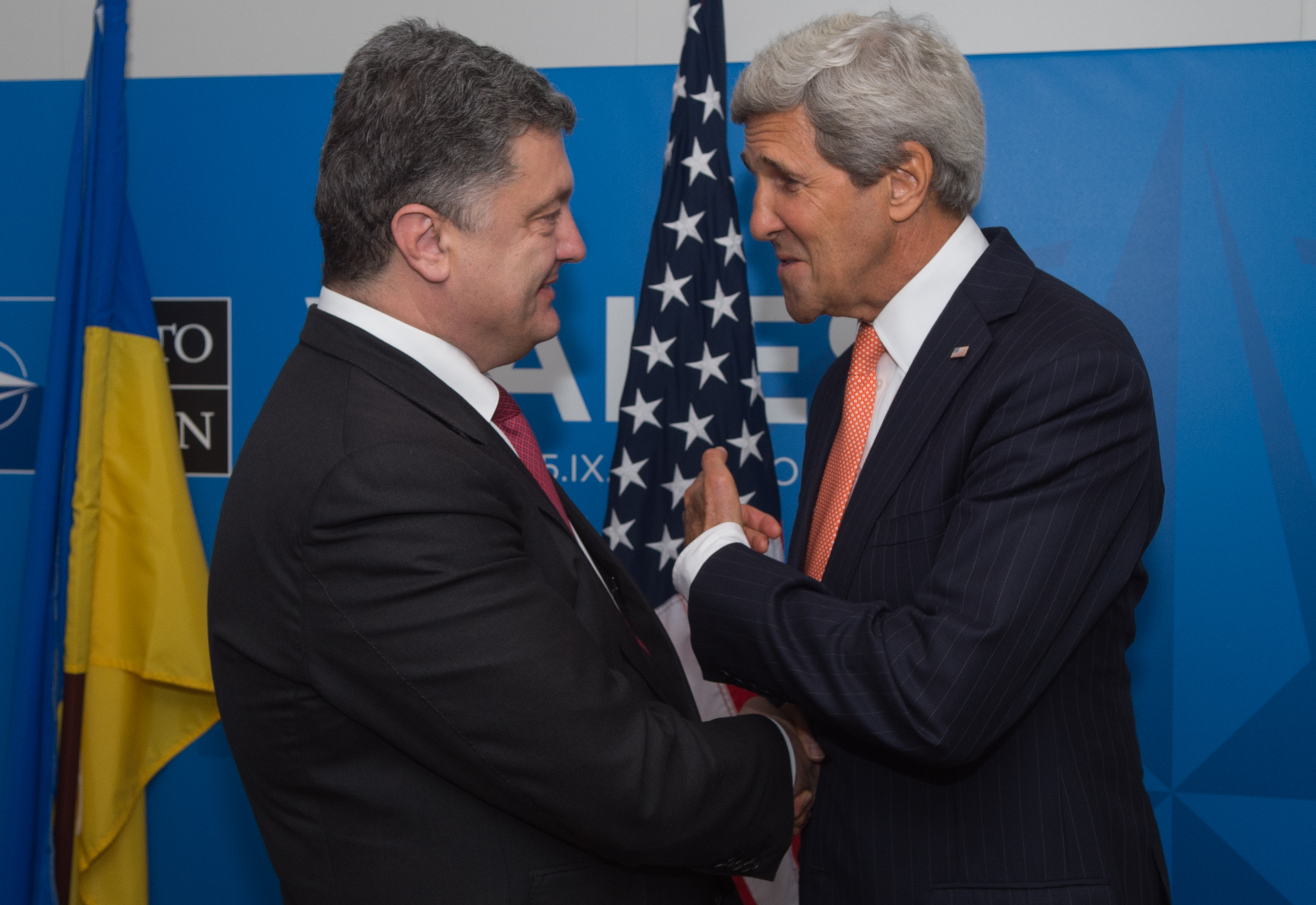 U.S. Secretary of State John Kerry shakes hands with Ukrainian President Petro Poroshenko before a bilateral meeting on September 4, 2014, amid the NATO Summit in Newport, Wales, United Kingdom. [State Department photo/ Public Domain]